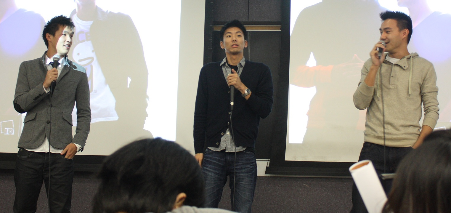 Wong Fu Productions presenting at USC in 2010.